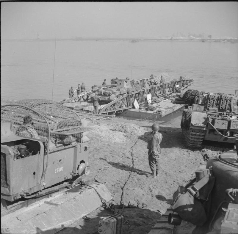 The British Army in North-west Europe 1944-45 An Archer 17-pdr self-propelled gun of 61st Anti-Tank Regiment being loaded aboard a raft while Churchill tanks wait their turn to cross the Rhine, 24 March 1945. RAF barrage balloon winches are used as motive power for the rafts.